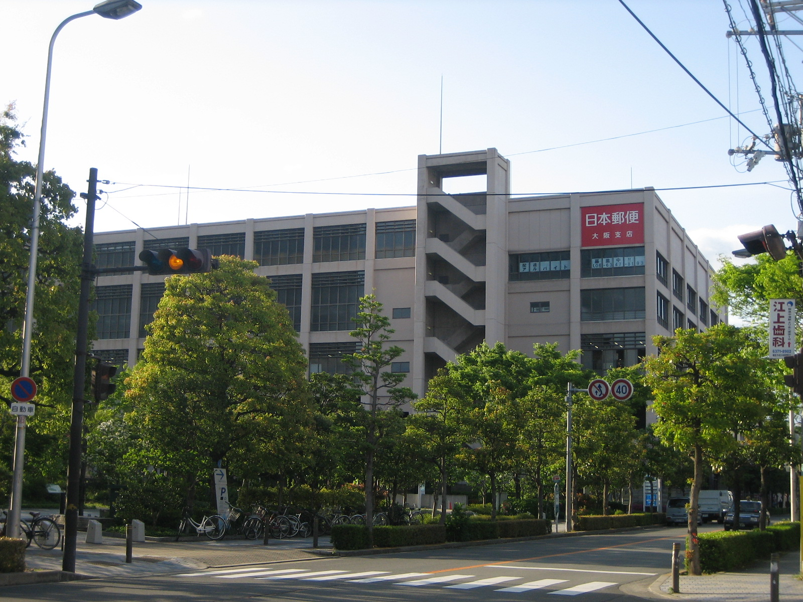 JP Post Osaka branch (building)